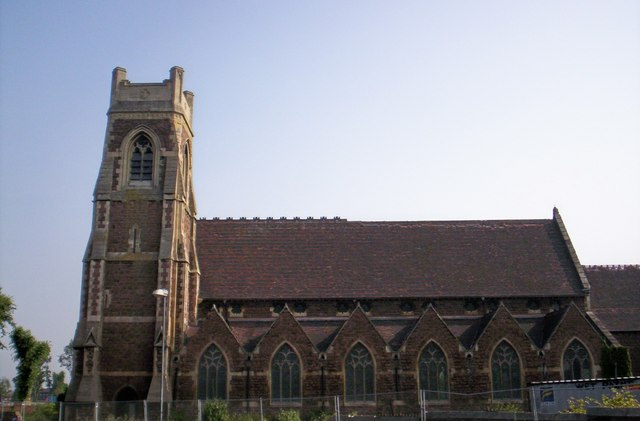 Christ Church, Grantham Road, Sparkbrook, Birmingham. One of several churches damaged in the tornado that hit Birmingham in July 2005, Christ Church, Sparkbrook, was already being considered for closure. Permission was given to demolish on health and safety grounds, but as the bulldozers moved in in June 2006, the church was spot-listed. It was demolished in 2007.